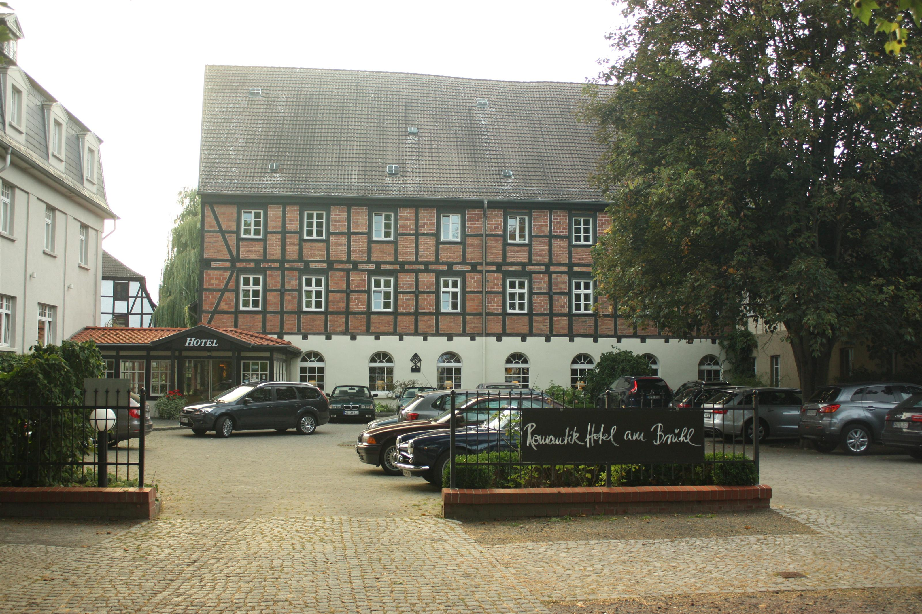 This is a photograph of an architectural monument.It is on the list of cultural monuments of Quedlinburg Kaiser-Otto-Straße 17 (Quedlinburg)